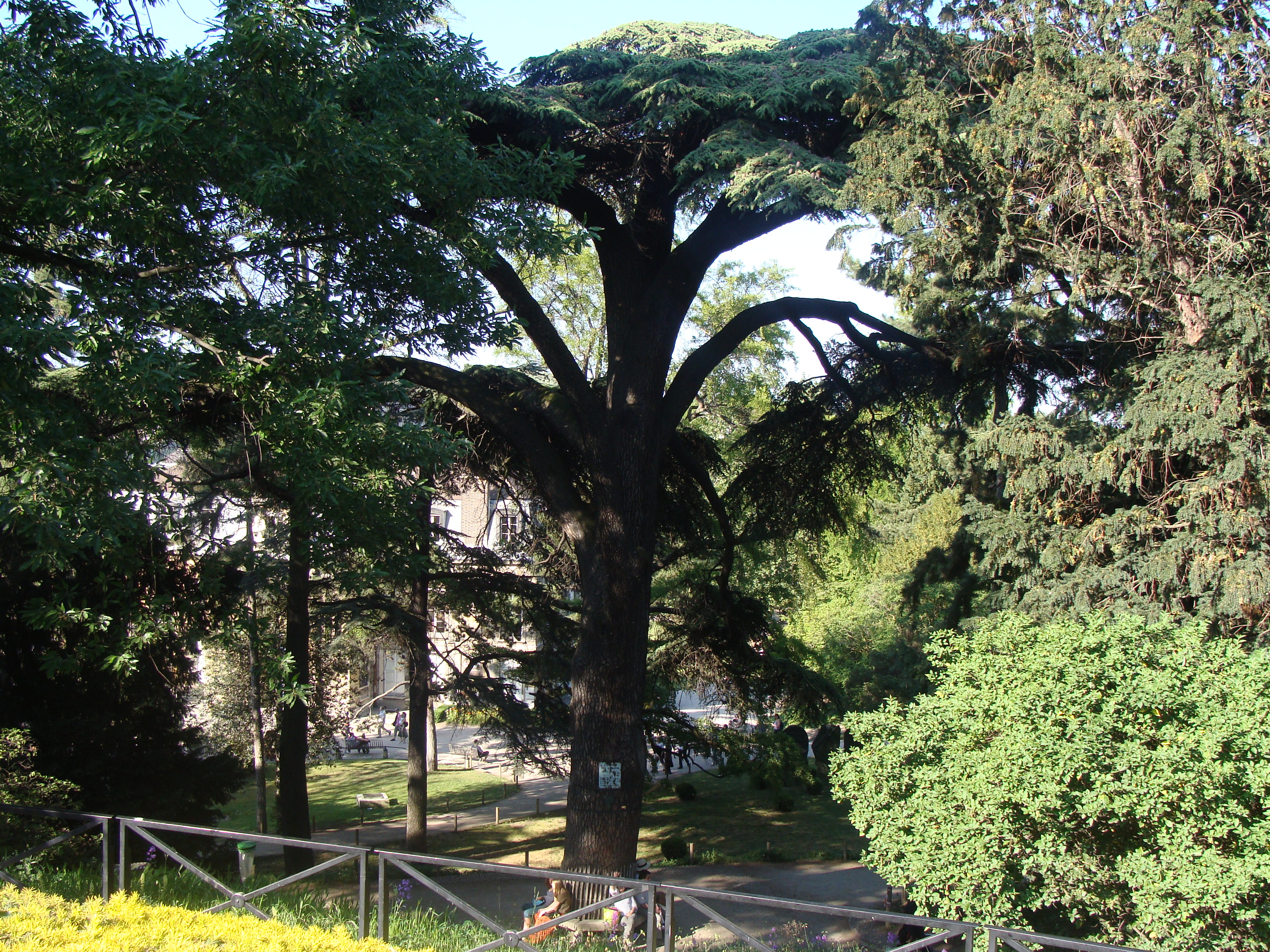 Cedrus libani, planted in 1734 in the Jardin des Plantes de Paris, France, by Bernard de Jussieu, a french Naturalist, from seeds given to him by dr. Collinson, an english MD. "Remarkable tree of France" since 2001. View from the Labyrinth.